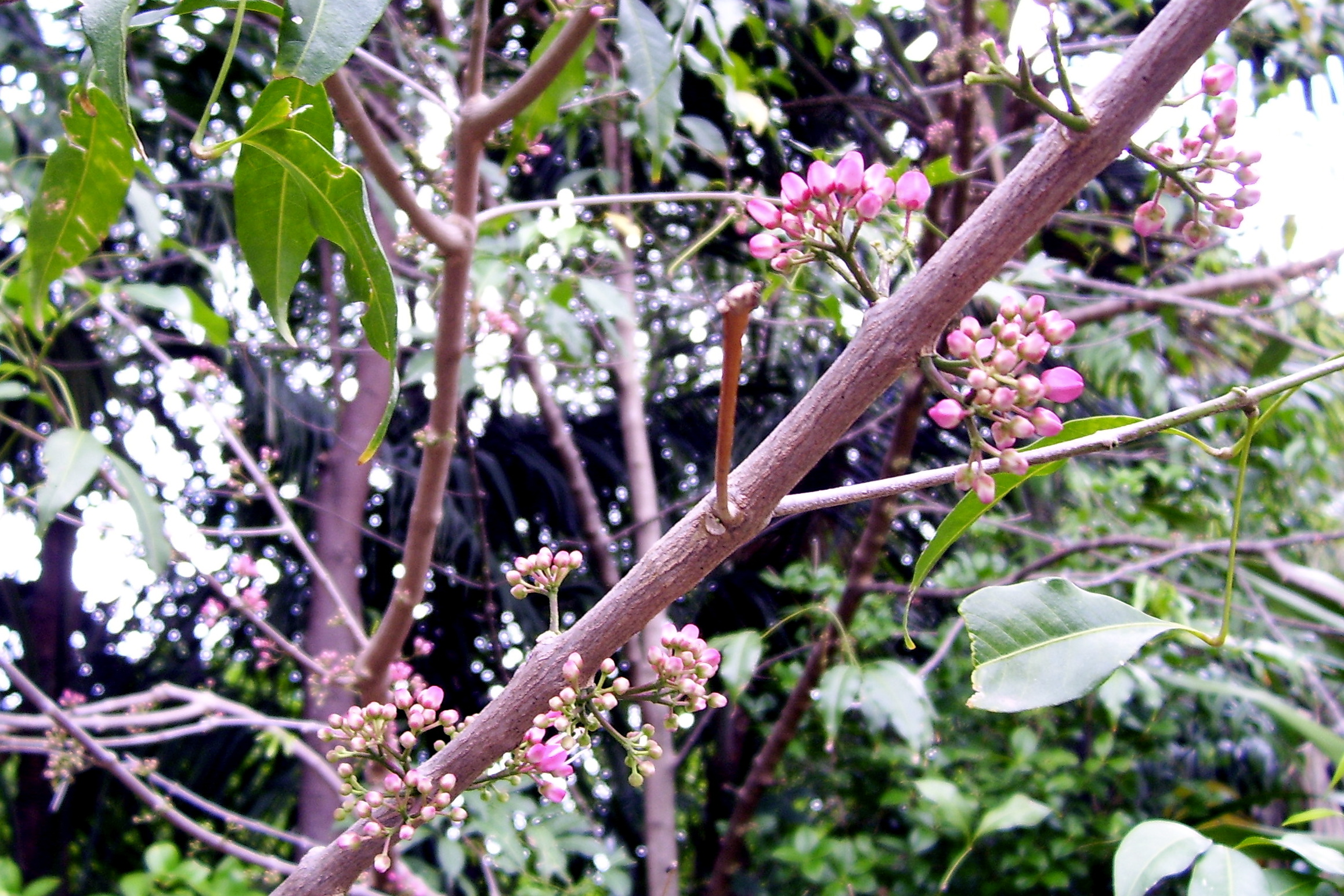 Melicope rubra syn. Evodiella muelleri (Little Euodia), Rainforest, Roma Street Parkland, Brisbane